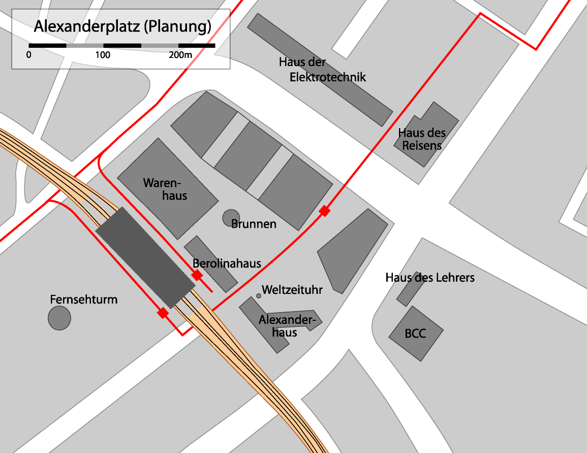 Current plans for the Alexanderplatz in Berlin